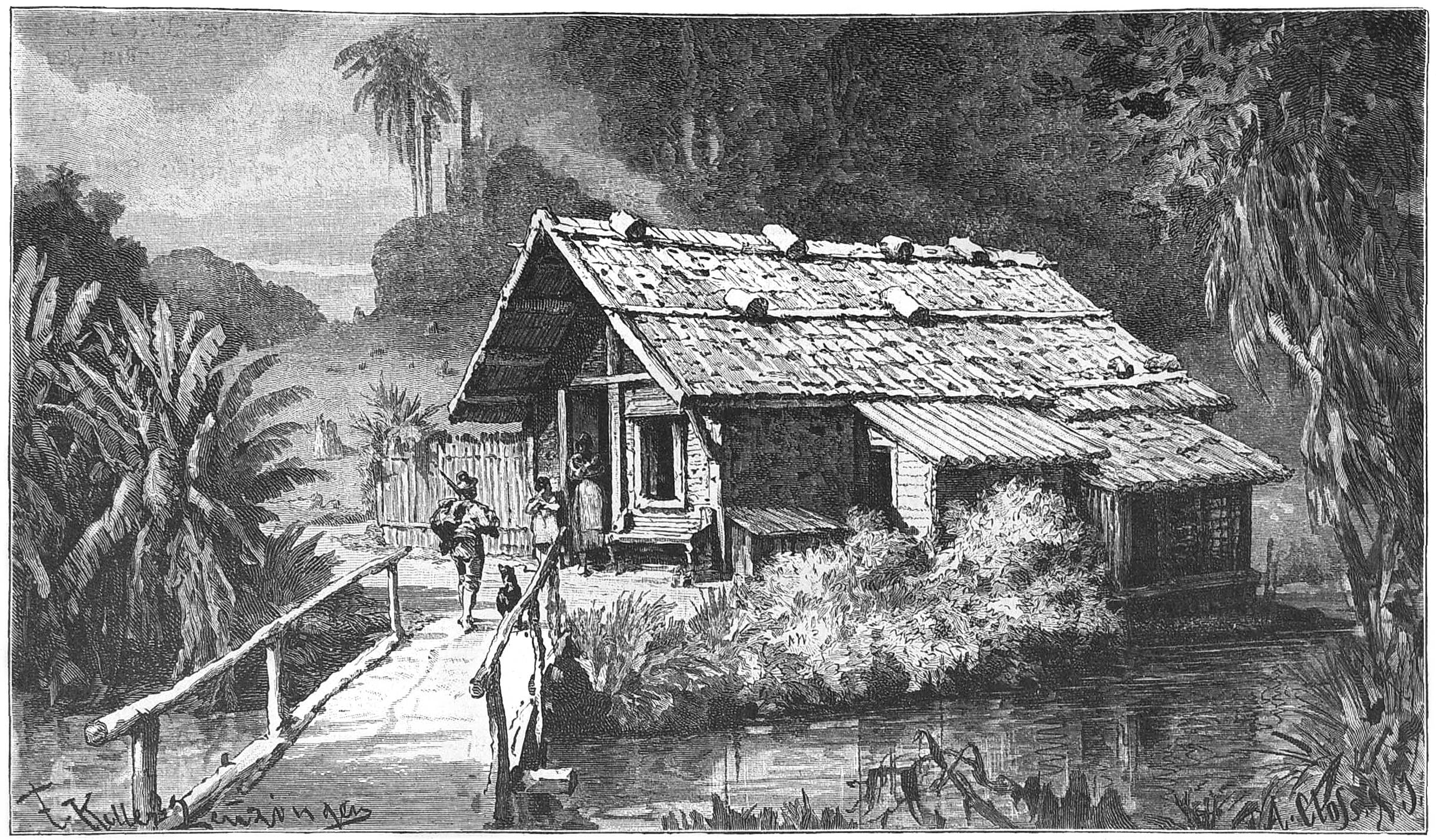 caption: "Hütte eines Tirolers in Brasilien. Originalzeichnung von F. Keller-Leuzinger."